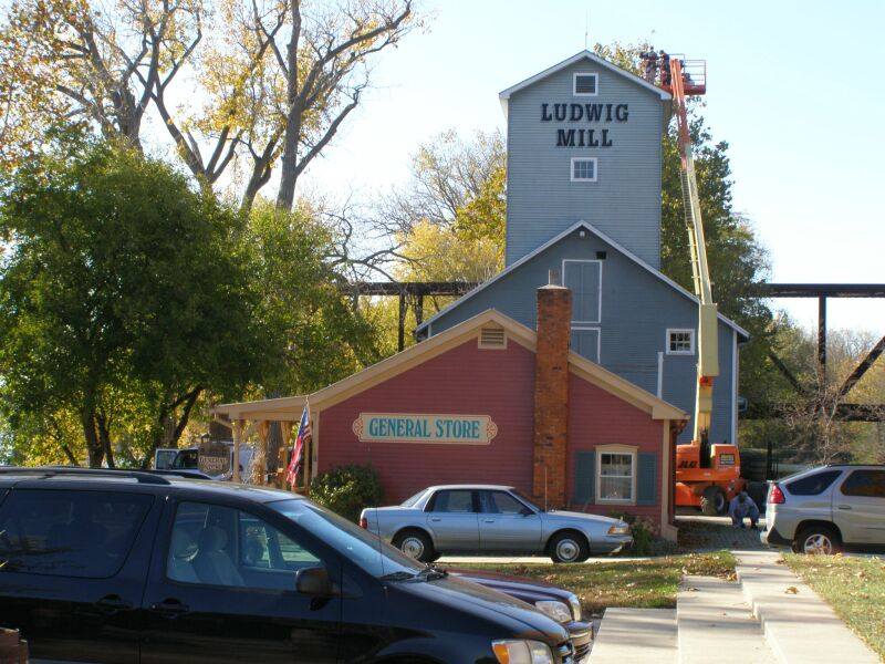 Historic Isaac Ludwig Mill in Providence Metropark, Toledo, Ohio